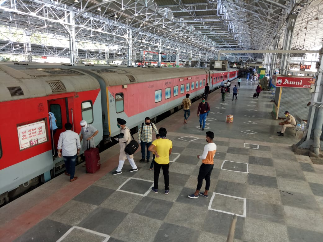 WR's special train from Mumbai Central.